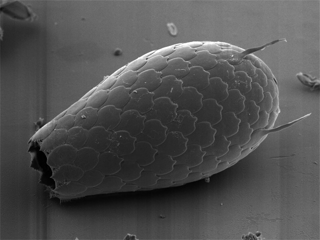 Euglypha sp. / from Sanbongi-bog, from Yamagata, Yamagata Pref., Japan / SEM:JEOL JSM-6330F